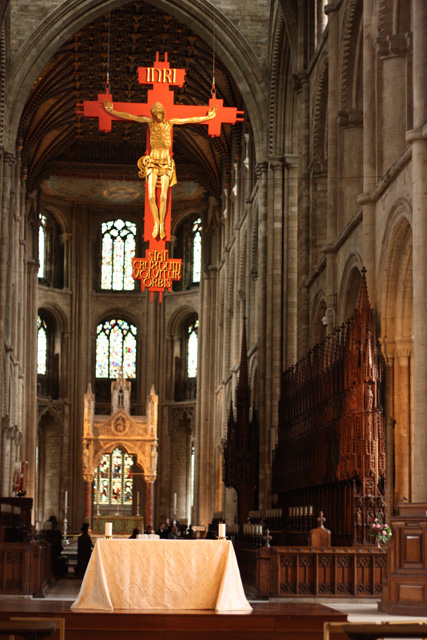 Peterborough Cathedral - an interior view The cathedral has to be seen to be appreciated, and there is a sense of community relating to the faith, not just a well preserved ancient building.